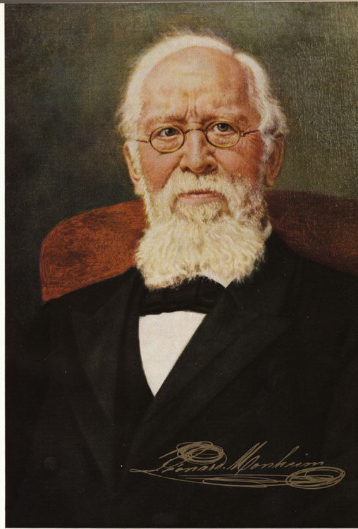 Painting of Leonard Monheim